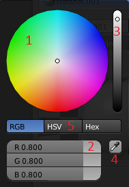 color wheel from blender 2.59 (numberd)